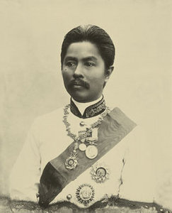 Major General Prince Prachaksinlapakhom, South general (was taken before marched to suppress rebel one day)